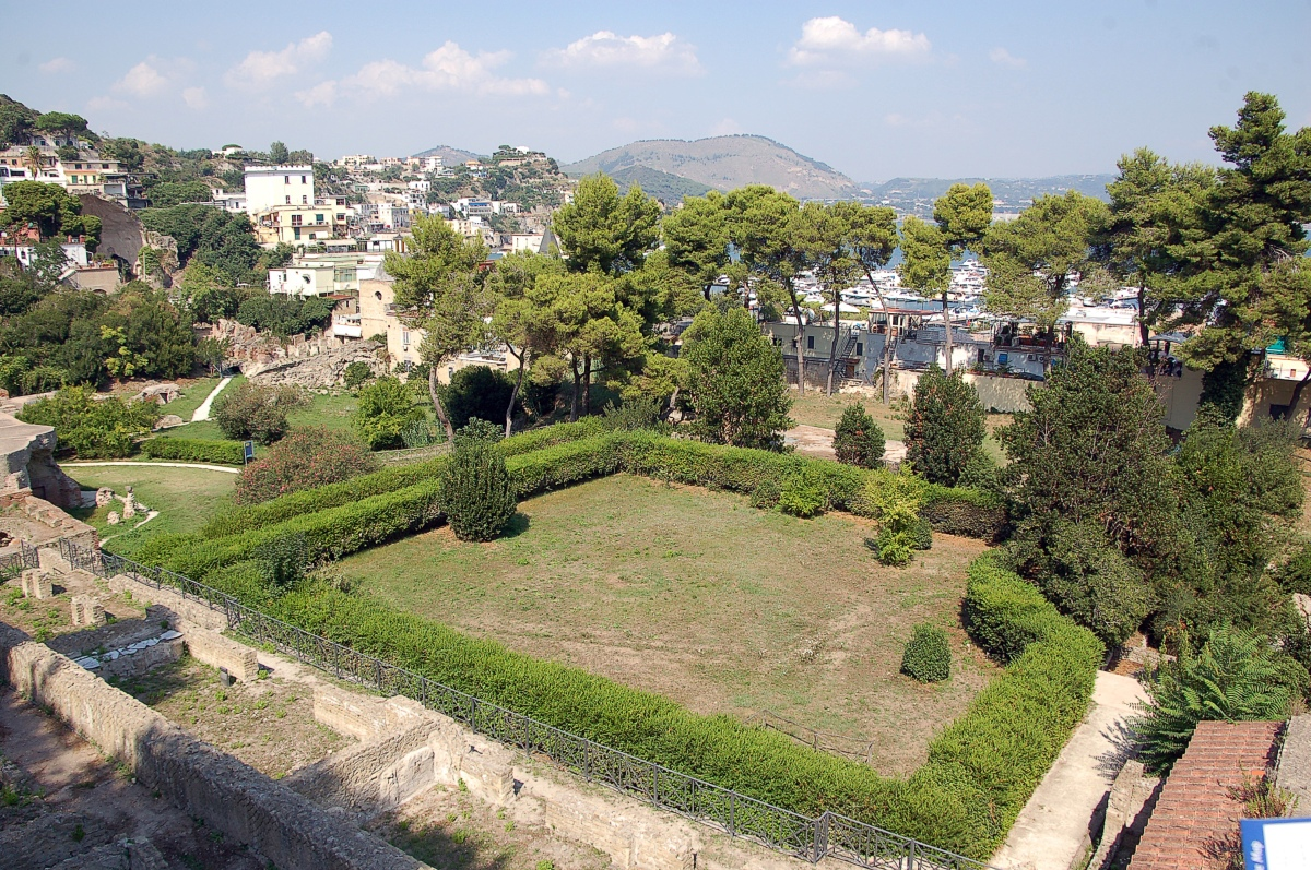 Compex of the roman thermapbath